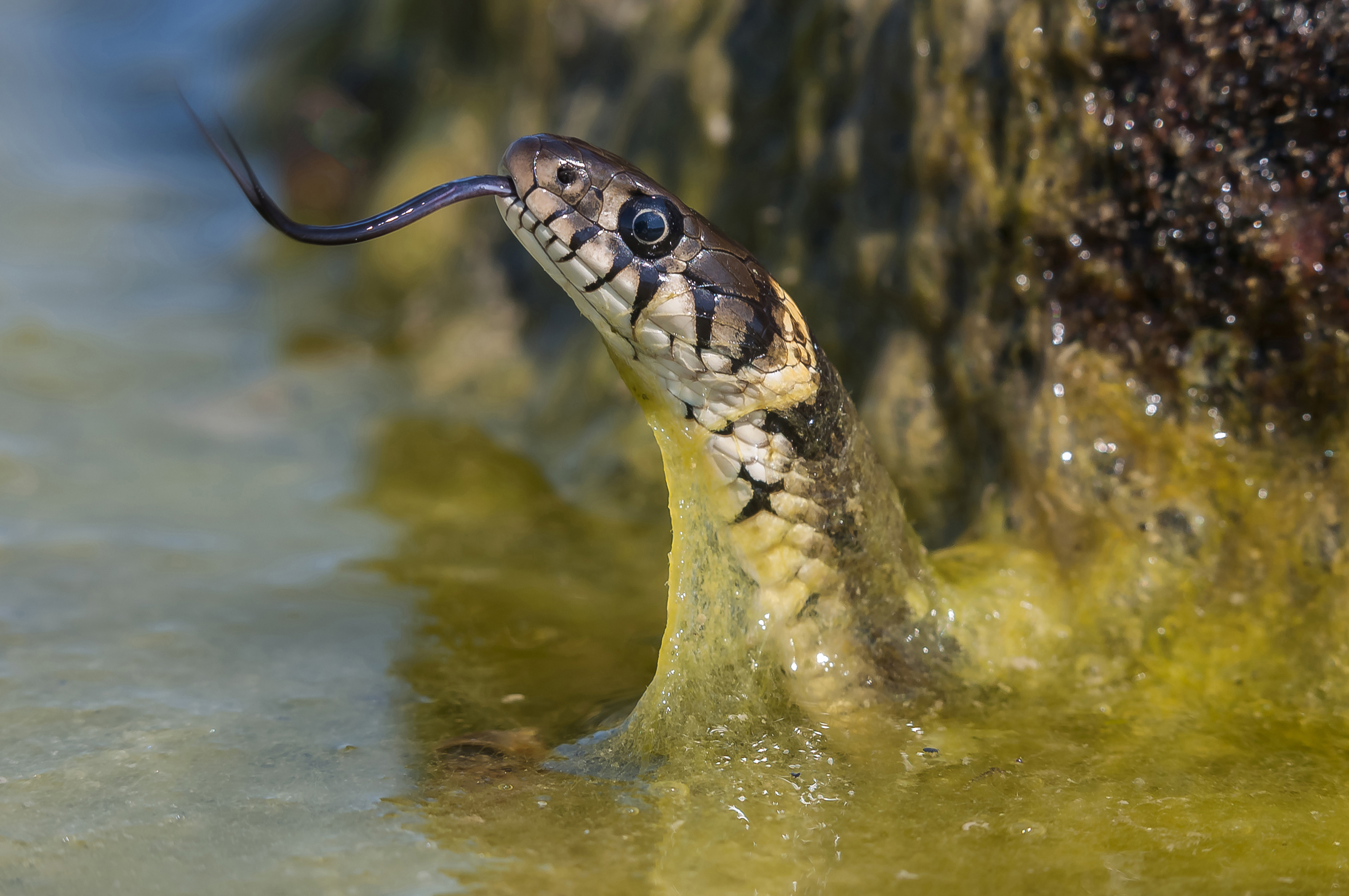 Grass snake (Natrix natrix) at the sea shore. Snake emerged from the water to breathe and look around. Photographed in Tallinn, Estonia.